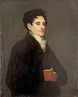 Joaquín María de Ferrer y Cafranga (1824) by Francisco de Goya A native of the Basque province of Guipúzcoa, Ferrer made a fortune in Latin American trade. His outspoken Liberal views earned him a death sentence from Ferdinand VII. Goya met him in Paris, where he painted this portrait and a companion piece of his wife. The work is remarkable for its naturalness and directness of expression. The sitter appears to be lost in contemplation of the lines he is reading.